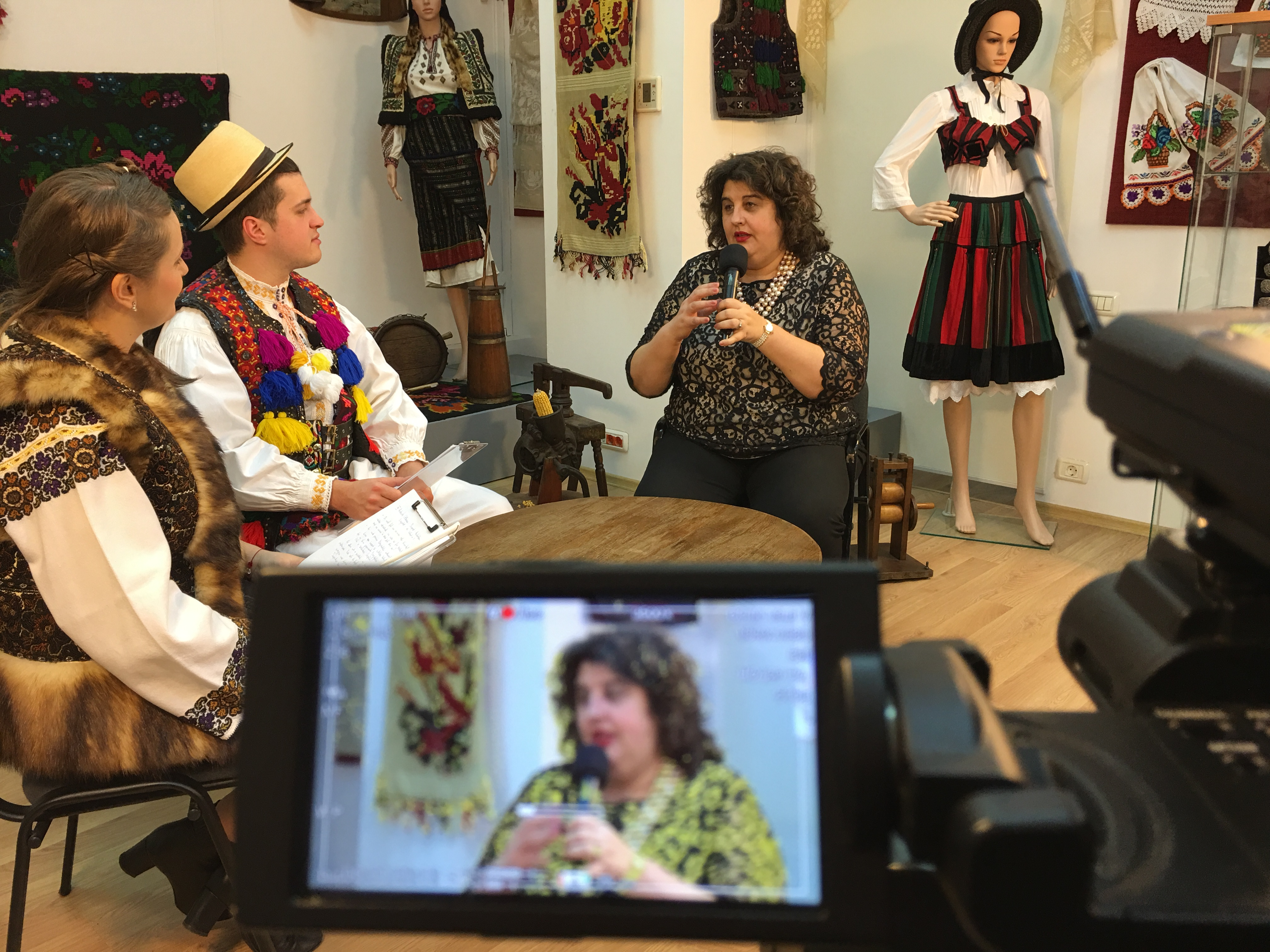 Emisiune la TV Trinitas, 2016